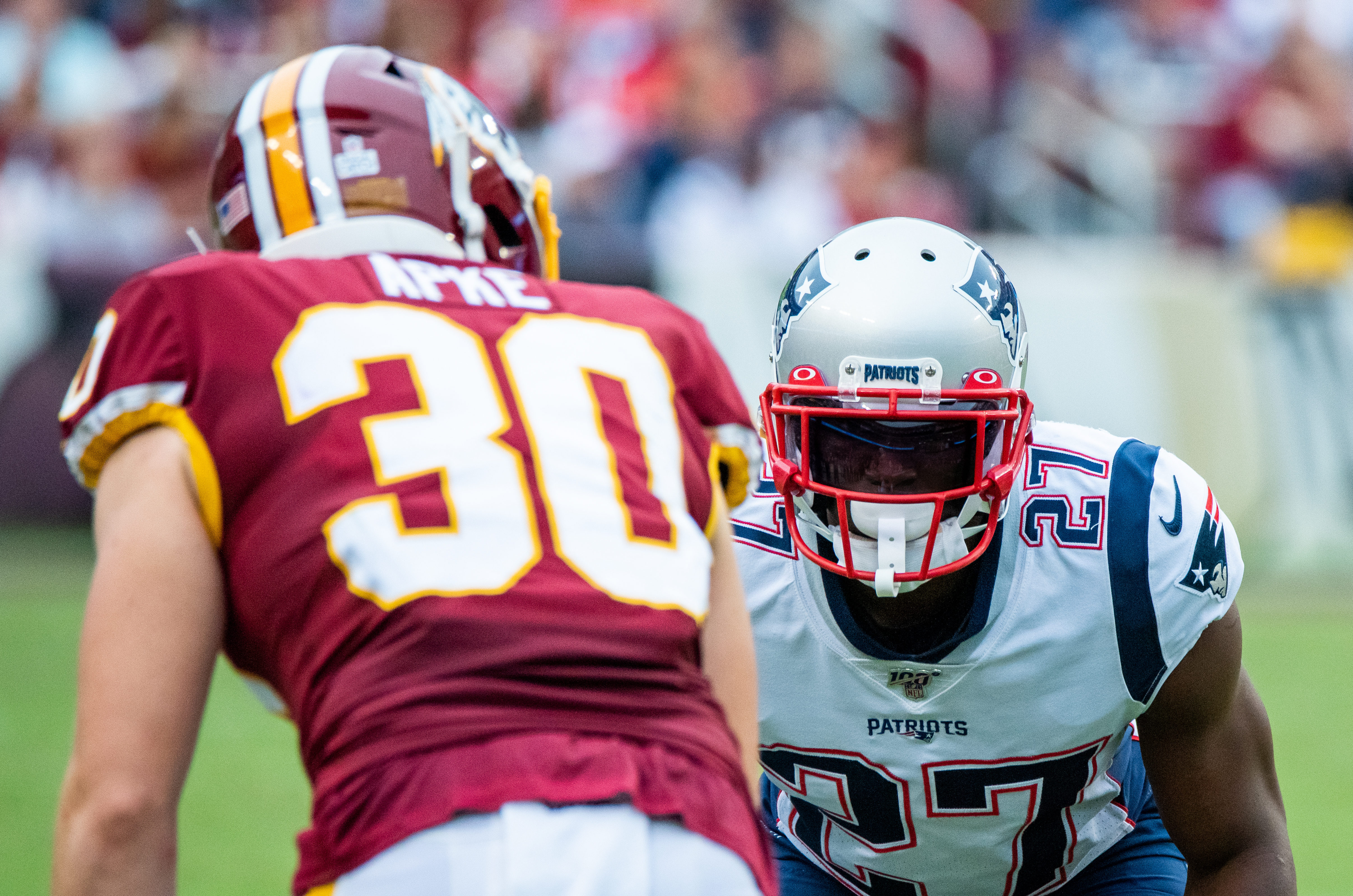 In 2019